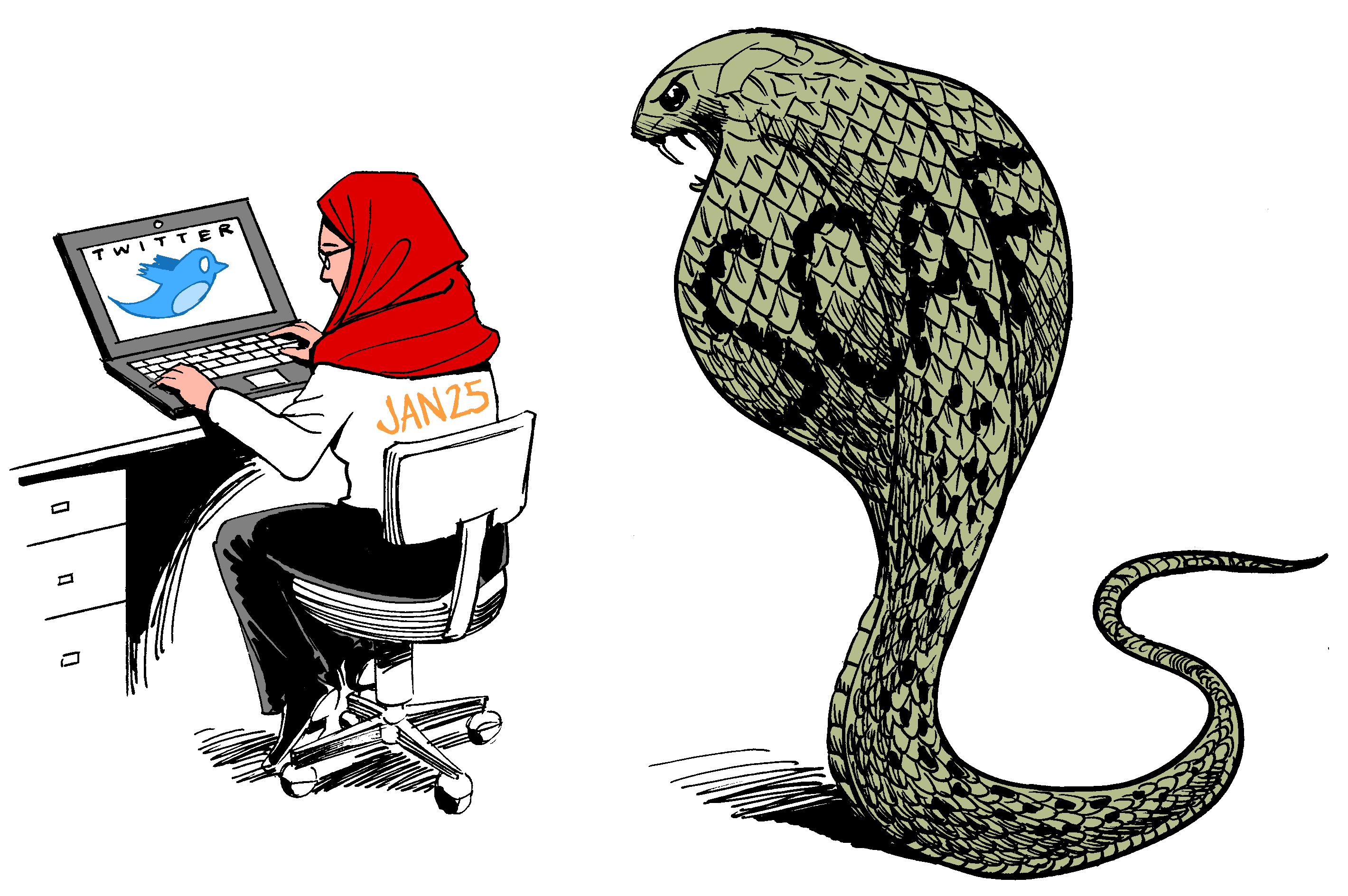 Egypt activist Asmaa Mahfouz charged with "inciting violence" against SCA